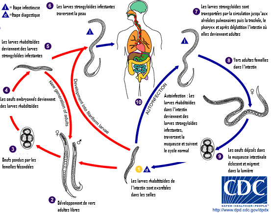 This is an illustration of the life cycle of Strongyloides stercoralis, the causal agent of Strongyloidiasis. For a description of the life cycle of Strongyloides stercoralis, the causal agent of Strongyloidiasis, select the link below the image or paste the following address in your address bar